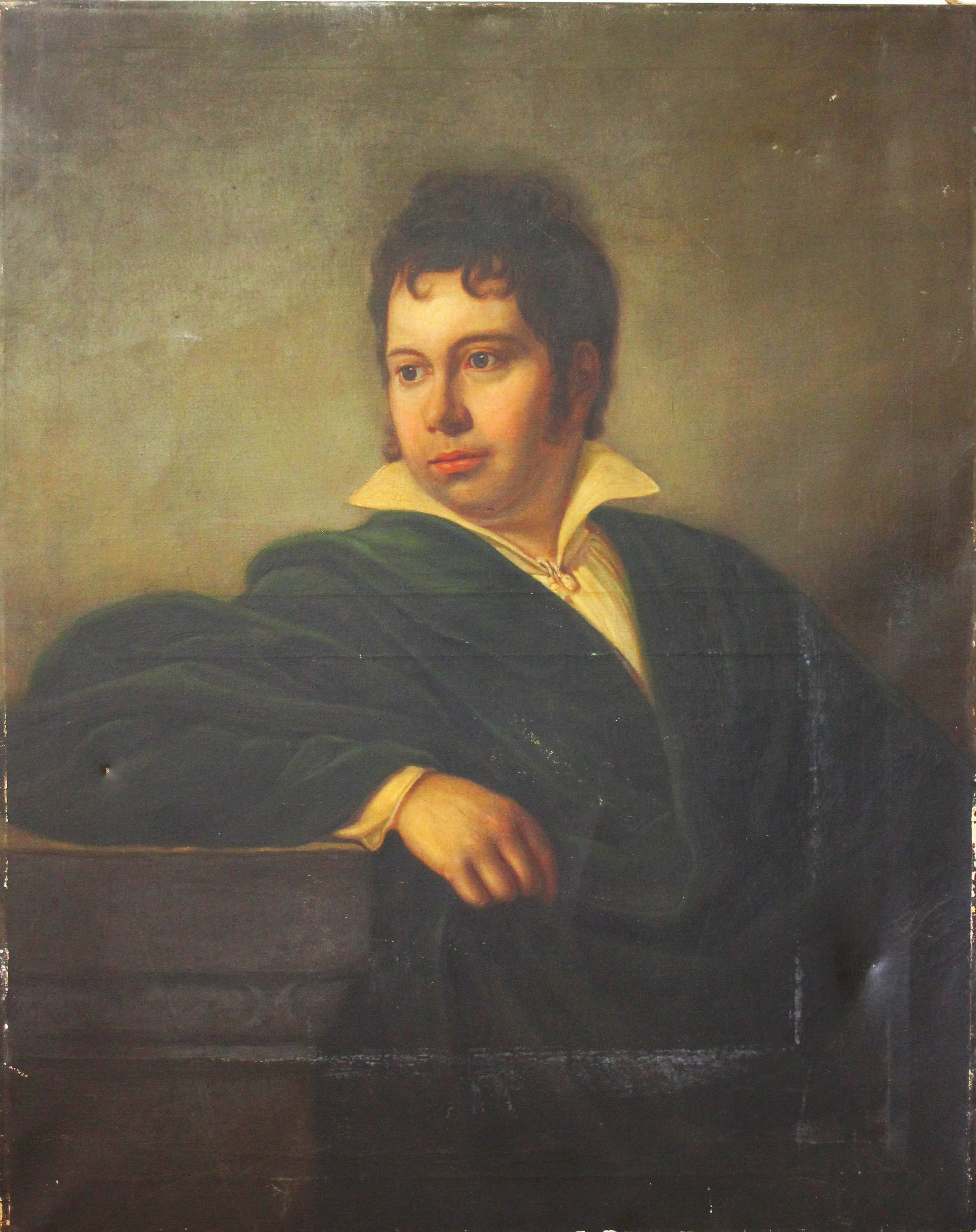 Photograph of oil painting of Cornelius Carl Souchay